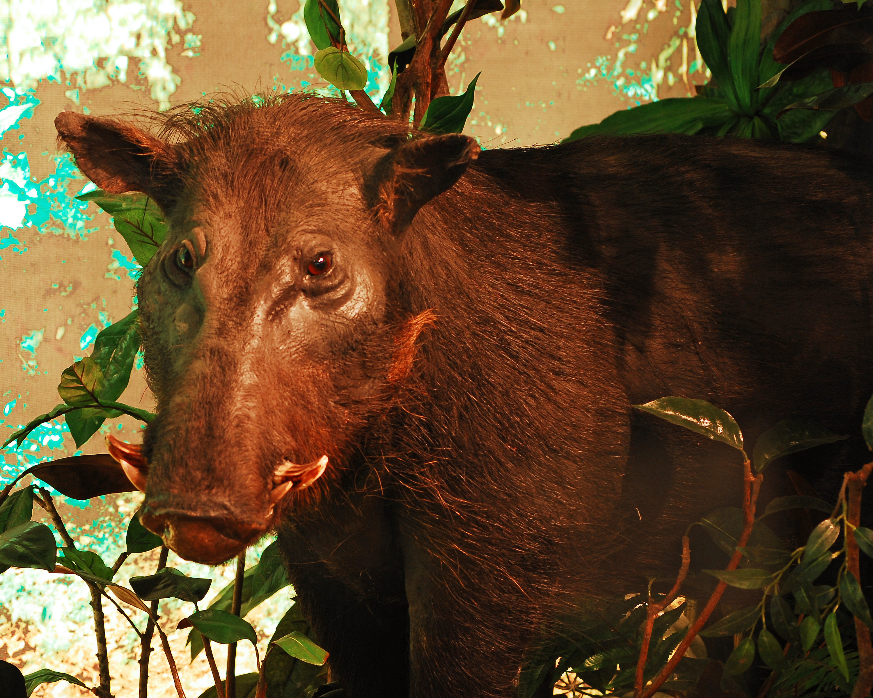 Giant Forest Hog Hylochoerus meinertzhageni Wikipedia Loves Art at the Houston Museum of Natural Science This photo of item # [1] at the Houston Museum of Natural Science was contributed under the team name "Houston_Museum_Of_Natural_Science" as part of the Wikipedia Loves Art project in February 2009. Houston Museum of Natural Science The original photograph on Flickr was taken by gwenturnerjuarez—please add a comment to the original Flickr page whenever a use has been made on Wikipedia or another project. Project galleries on Flickr: this institution, this team